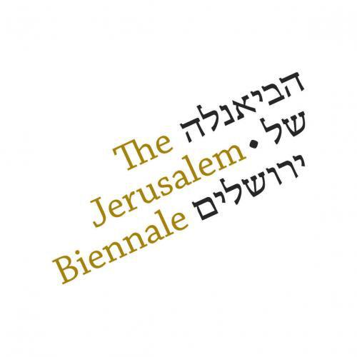 The Jerusalem Biennale Logo (Jerusalem Biennale original work)